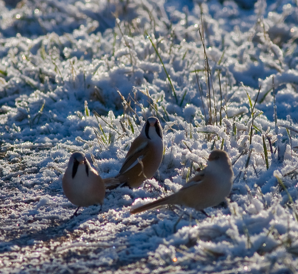 Panurus biarmicus (Bearded Reedling), two males and a female (right) photographed at Vanhankaupunginlahti, Helsinki, Finland. The location is listed in Ramsar "List of Wetlands of International Importance".